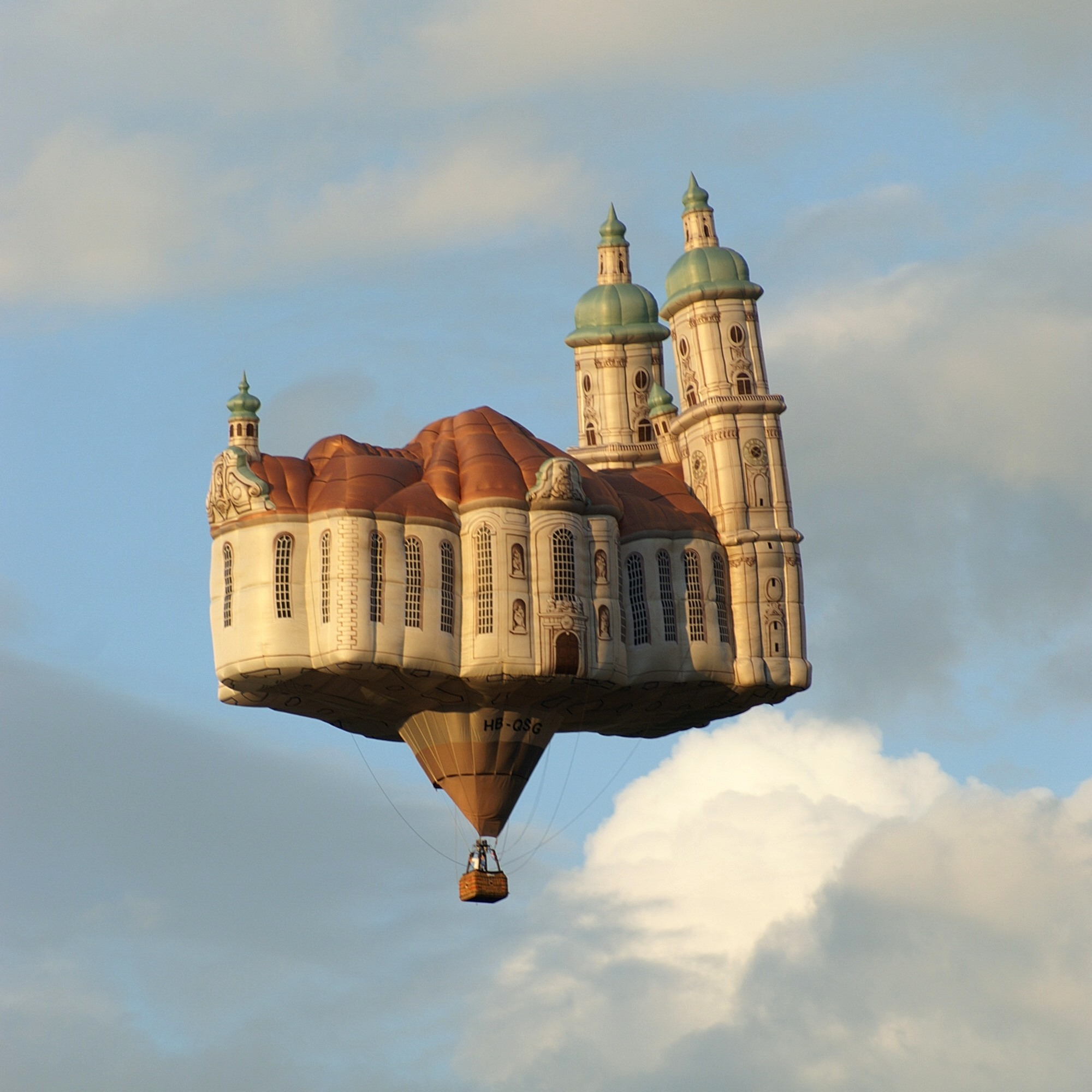 Balloon Swiss Aircraft Registry-Nr.:HB_QSG Manufacturer:KUBICEK S.R.O. *** Bj.2002 Aircraft-Pattern/Type:SPEC.SHAPE BB GALLEN Main Owners:Kanton St. Gallen; CH-9001 St. Gallen, Regierungsgebäude Main holders:B & M Balloon & Airship Company GmbH; CH-8593 Kesswil, Breitfeldstrasse 1, Postfach 1 "Flying Cathedral" by Jan Kaeser and Matin Zimmermann (Artists from St.Gallen) lookalike of Church of the Monastery of St. Gallen. Seen at the "internationalen Ballontagen Alpenrheintal" [3] on the bridge festival[4] Wiesenrain in Lustenau - Widnau .